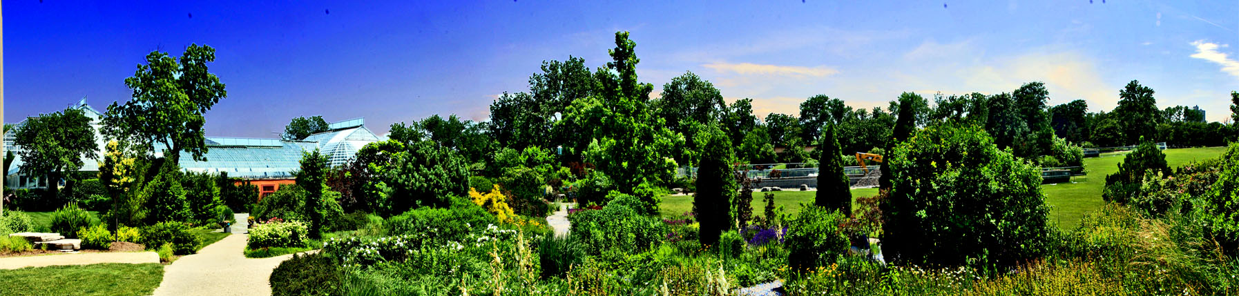 Garfield Park, 100 N. Central Park Avenue East Garfield Park